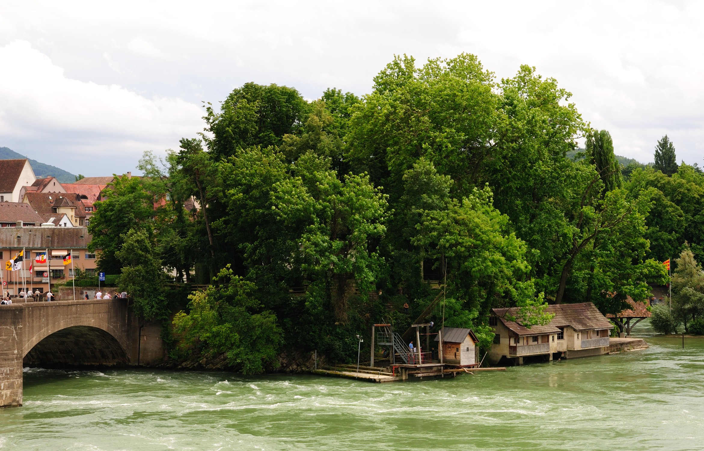 The old rhine bridge in Rheinfelden